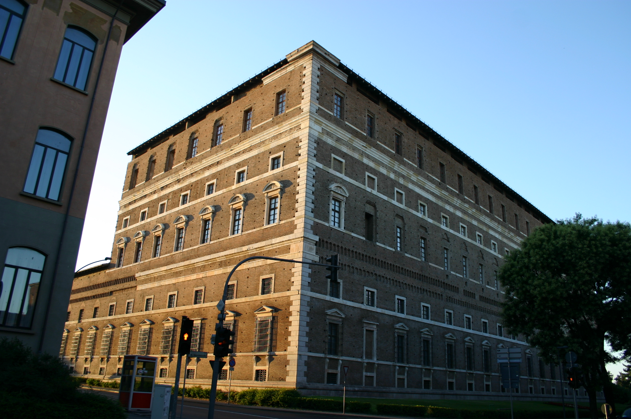 Palazzo Farnese palace in Piacenza, Italy. Picture by Giovanni Dall'Orto, July 14 2007.